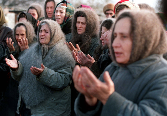 Chechen women plead for Russian troops not to advance towards the capital Grozny, December 1994.